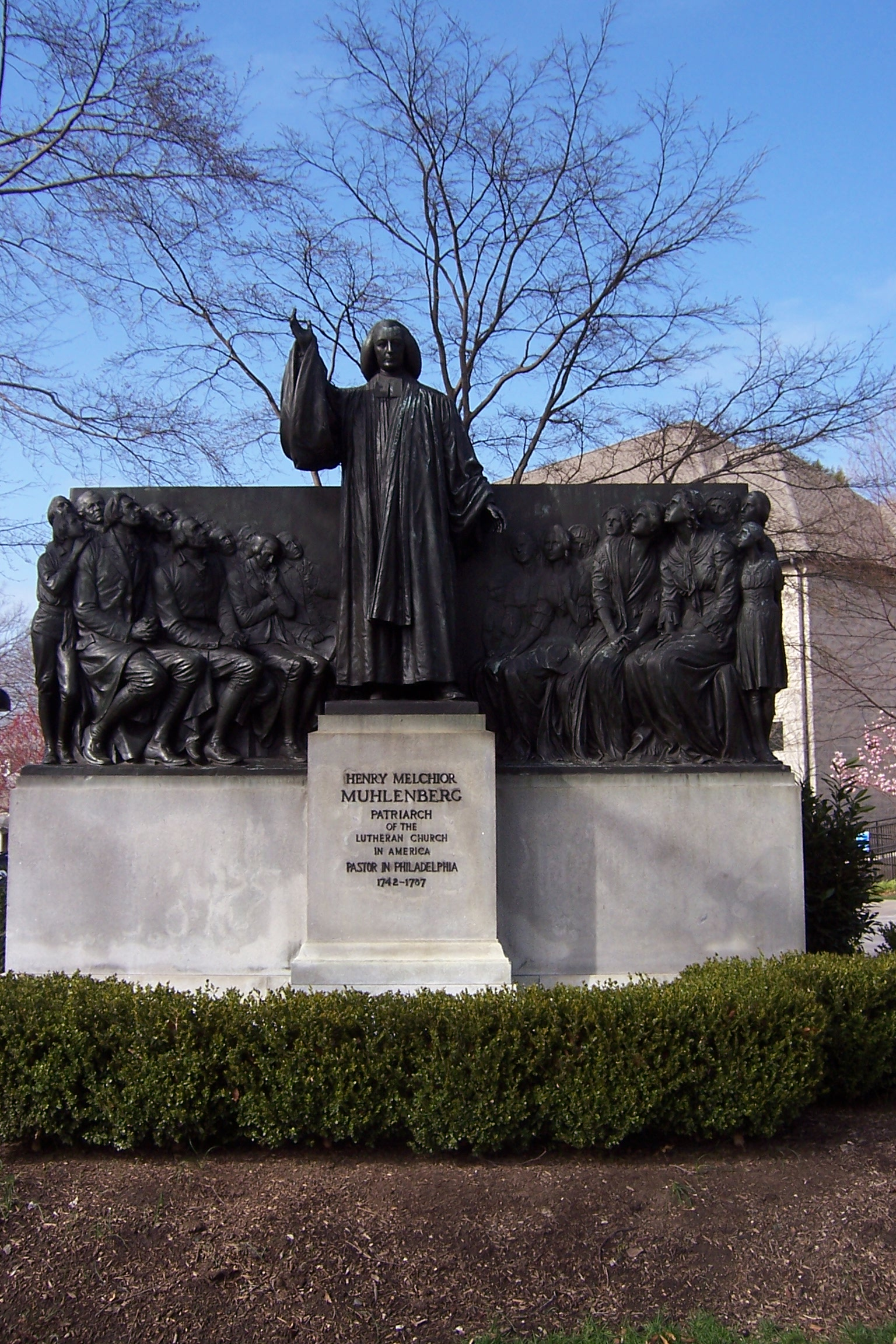 Monument to Henry Melchior Muhlenber, Lutheran Theological Seminary, Philadelphia